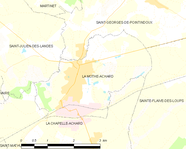 Map of French municipality La Mothe-Achard